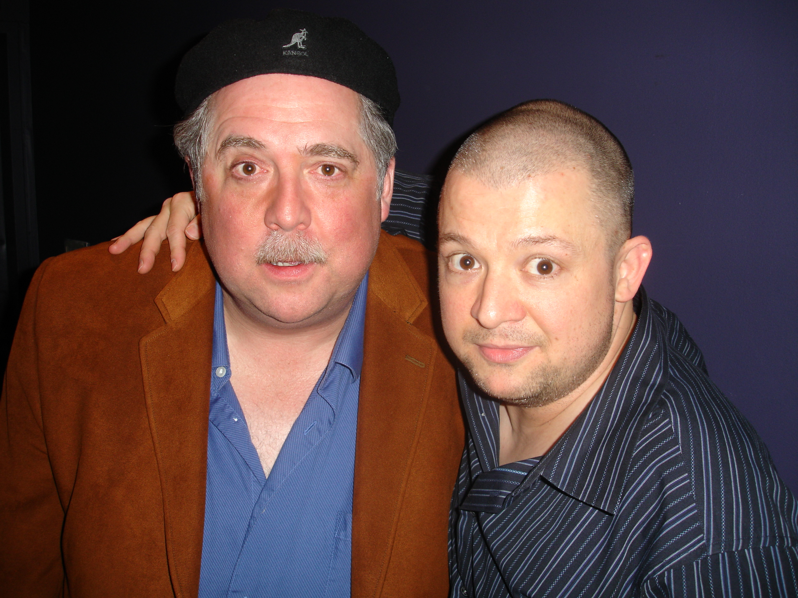 Rob Bartlett and Jim Norton at Caroline's on Broadway 2005